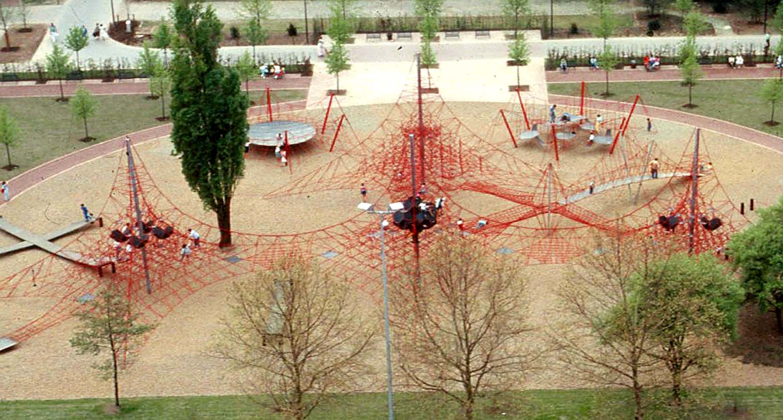 Super Four Mast Spacenet. This impressive spacenet was erected on the occasion of the Federal Garden Show (BUGA) 1987 at Düsseldorf, and is until now the biggest spacenet in the world.